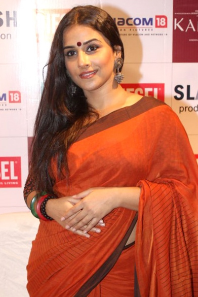 dvd launch kahaani